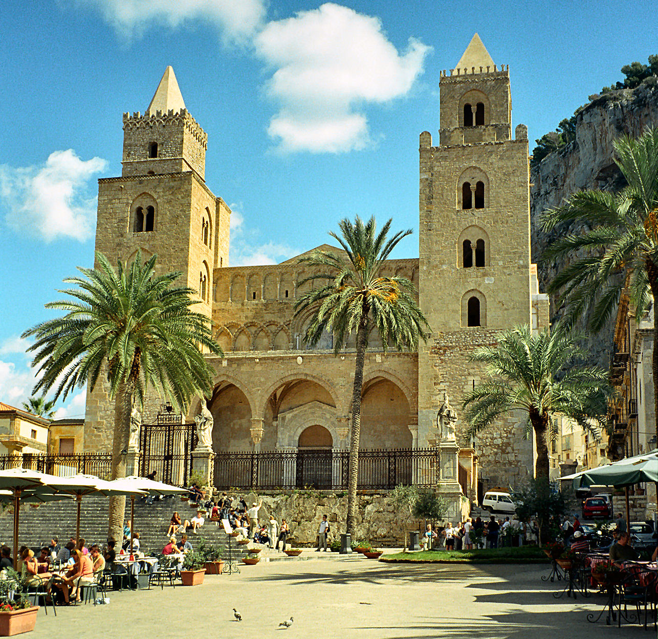 Cefalù - the cathedral, Sicily